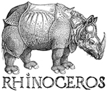 Logo of the Rhinoceros Party of Canada, previously known as neorhino.ca. It is a derivative of the 1515 ink drawing by German painter Albrecht Dürer.